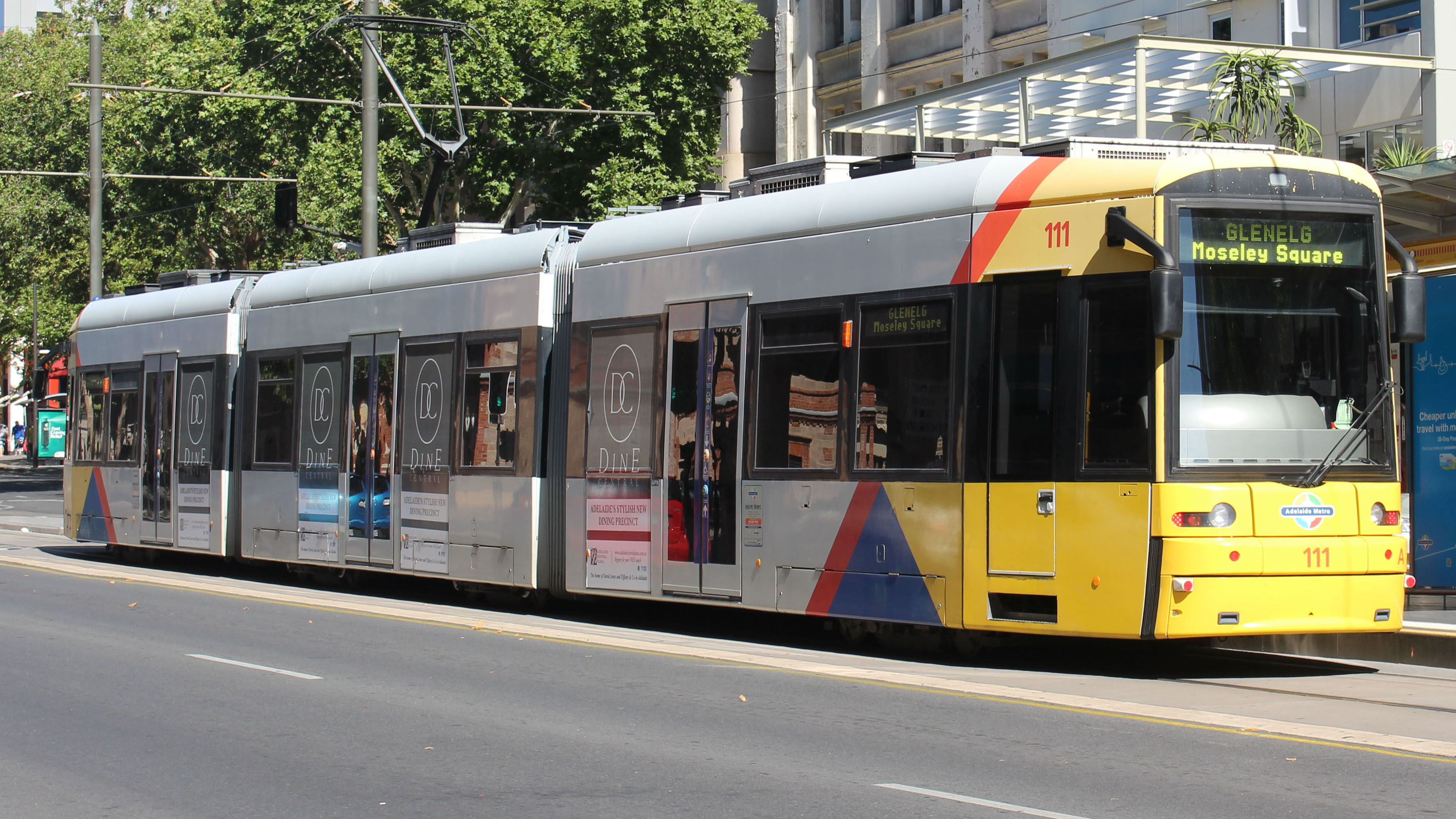 Adelaide Metro Flexity Classic Glenelg Tram, photographed heading towards Moseley Square